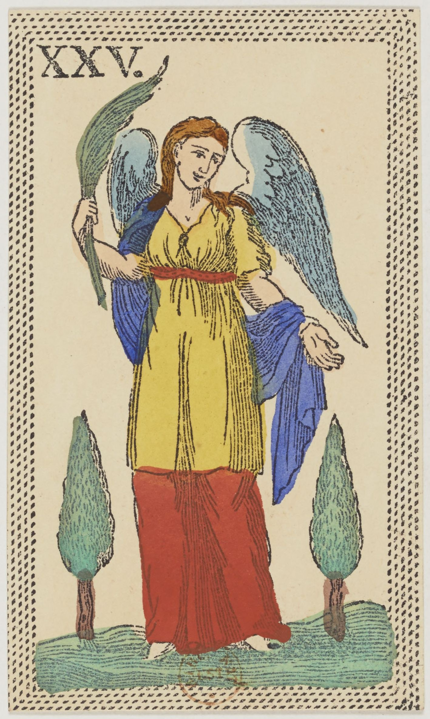 Minchiate card deck (Florence, 1860-1890): trump XXV - La Vergine